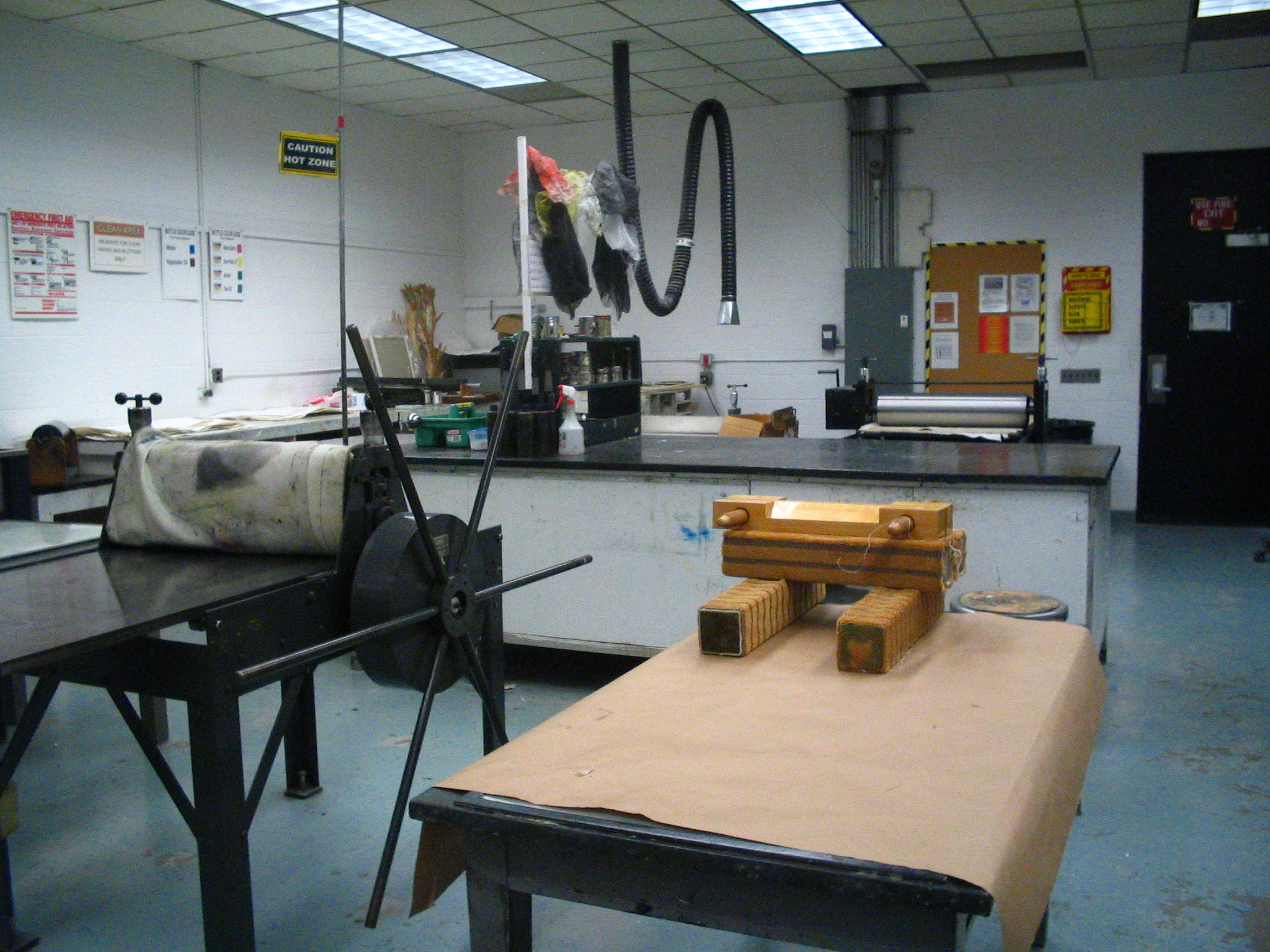 Shot in the spring of 2006, this was the Print Making Studio at Atlanta College of Art, shortly before the merger with SCAD (Savannah College of Art and Design)